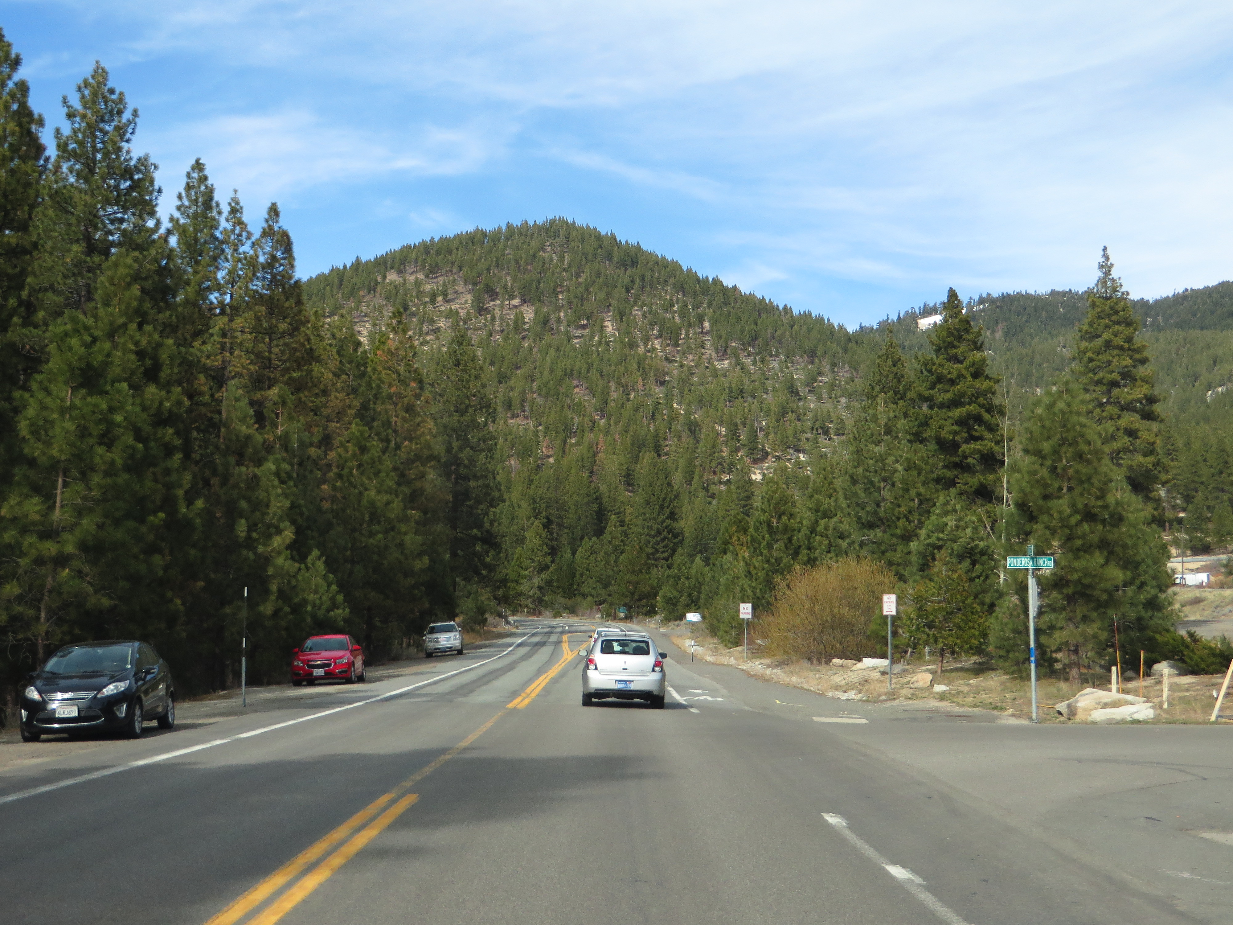 Incline Village is a census-designated place (CDP) in Washoe County, Nevada on the north shore of Lake Tahoe. The population was 8,777 at the 2010 census. It is part of the Reno−Sparks Metropolitan Statistical Area. Until the 2010 census, the CDP Crystal Bay, Nevada was counted jointly with Incline Village. Sierra Nevada College's main campus is located in Incline Village. The village is known as a haven for business and wealthy individuals from California. While some move to the village, others register shell corporations and fictitious primary residences there to avoid paying California taxes. A Montara, California, politician faced controversy for reporting Incline as her primary residence for tax purposes while also running for office in California. Michael DeDomenico, heir of the Rice-A-Roni and Ghirardelli fortune, was charged with evading $1.5 million in taxes to California by falsely claiming residency in Nevada. He owned homes in Verdi and Incline.